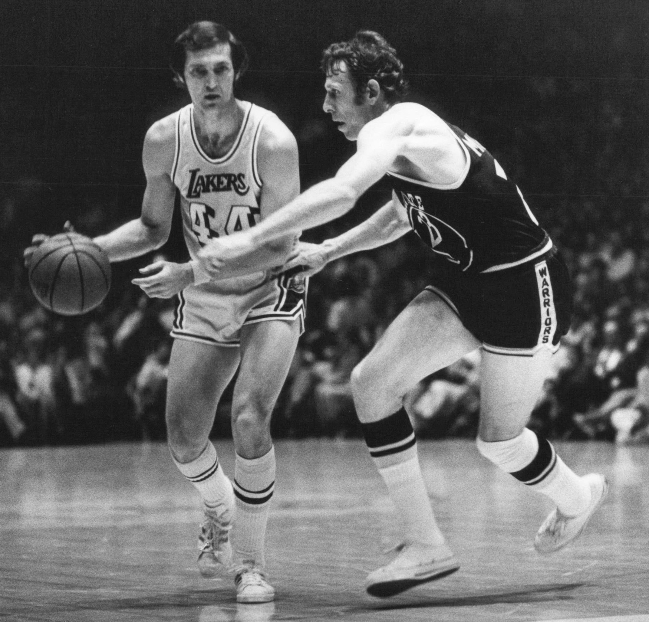 Professional basketball players Jerry West (left) and Jeff Mullins (right)